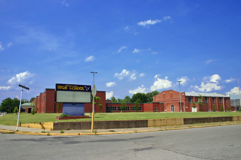 Photo oh Eldorado Illinois High School